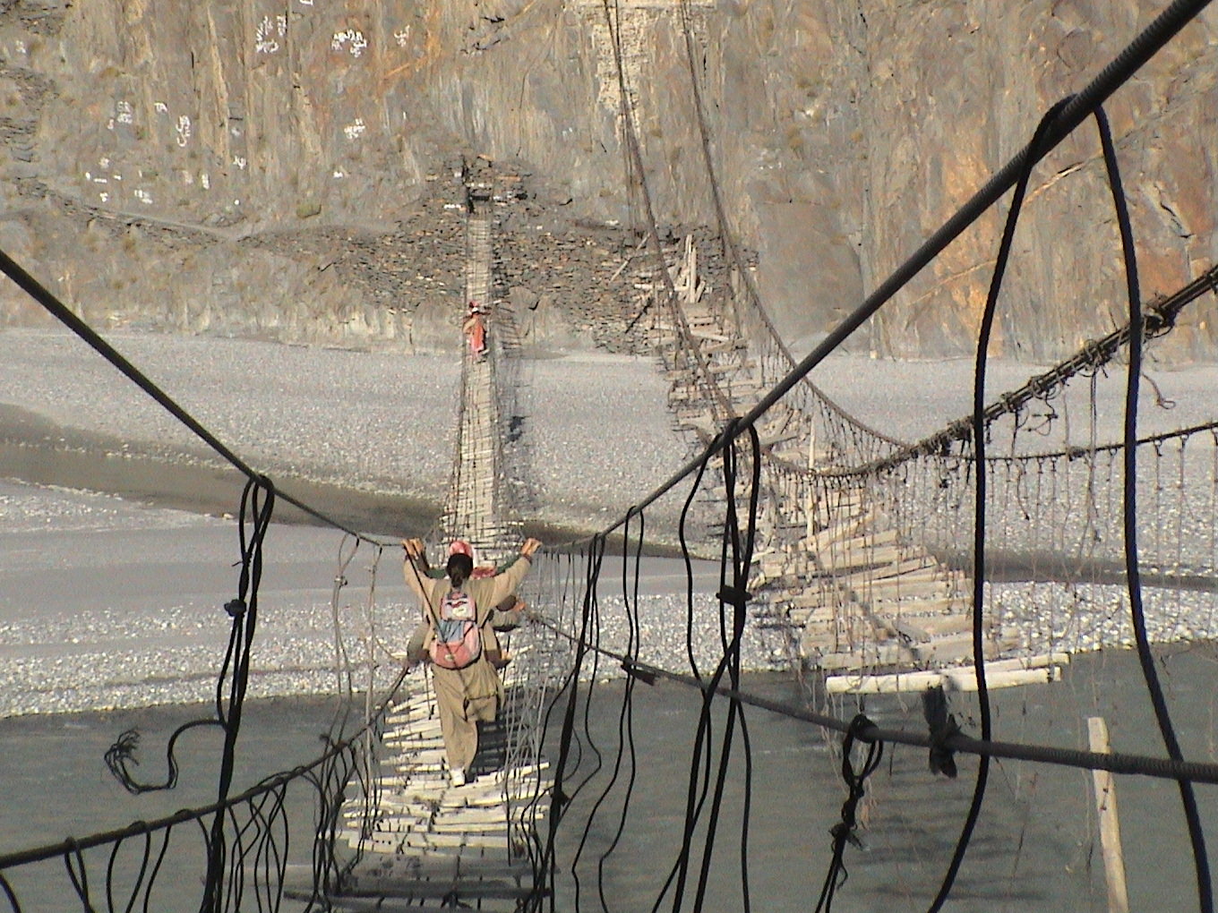 Women cross the Hunza River near Passu, Pakistan